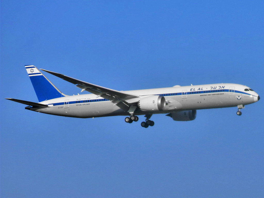 An El Al Israel Airlines Boeing 787-9 Dreamliner is on final approach to Newark Liberty International Airport, passing over Interstate 78 and Port Street. This aircraft wears a 1960s era retro livery.